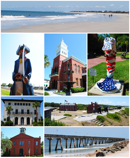 A collection of photos I took around Fernandina Beach, Florida.